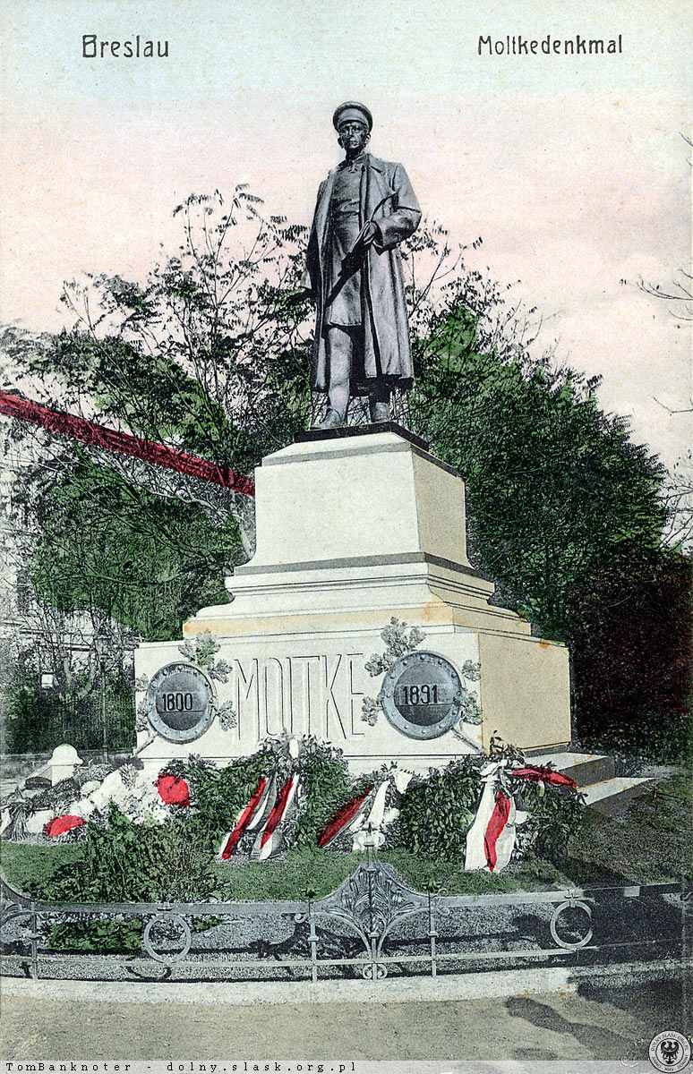 Monument of Helmuth Karl Bernhard von Moltke in Wroclaw